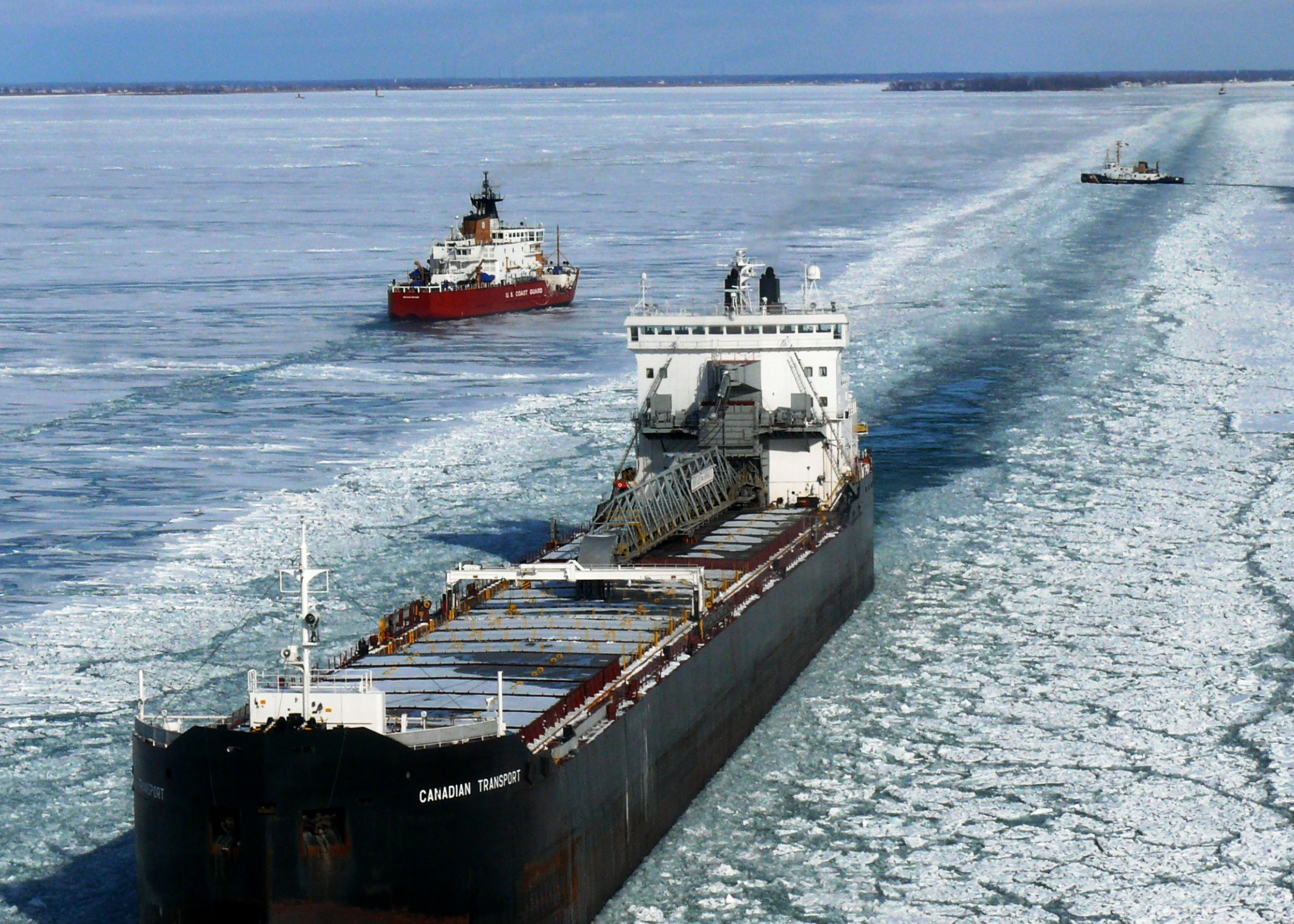 The U.S. Coast Guard Cutters Mackinaw and Neah Bay break track lines for commercial vessel Canadian Transport in Lake St. Clair, Jan. 12, 2010. Both cuttters are underway in support of Operation Coal Shovel, which encompasses southern Lake Huron, Detroit/St. Clair River systems, Lakes Erie and Ontario, including the St. Lawrence Seaway. Canadian Transport IMO-nummer: 7711737 MMSI-nummer: 316001698 Call sign: VCLX Length: 223 m Beam: 23 m Mackinaw IMO Number: 9271054 MMSI Number: 369992000 Callsign: NBGB Length: 73 m Beam: 36 m